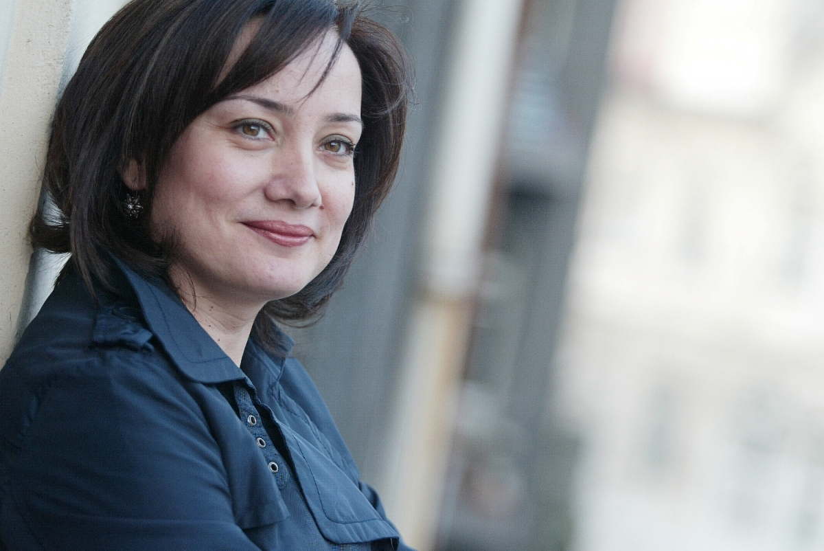 Sibel Köklü, Turkish journalist and writerИрон: Сибель Кёклю, туркаг журналист æмæ фыссæг